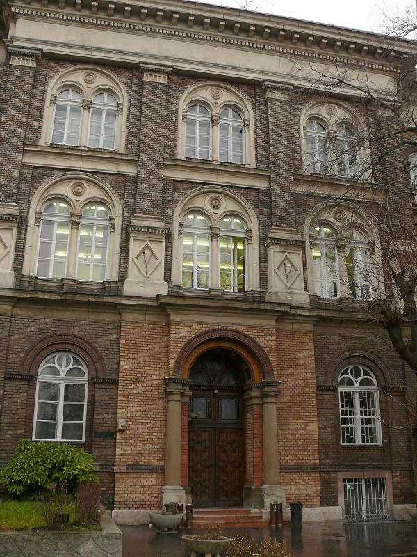 The Bethlen Gábor Square in Budapest